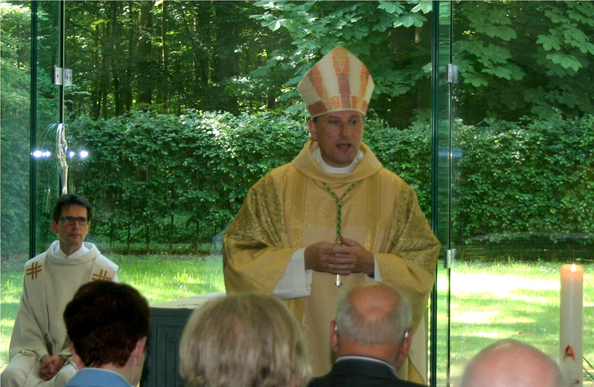 Auxiliary Bishop Wilfried Theising, Diocese of Münster (Germany), Roman Catholic Church